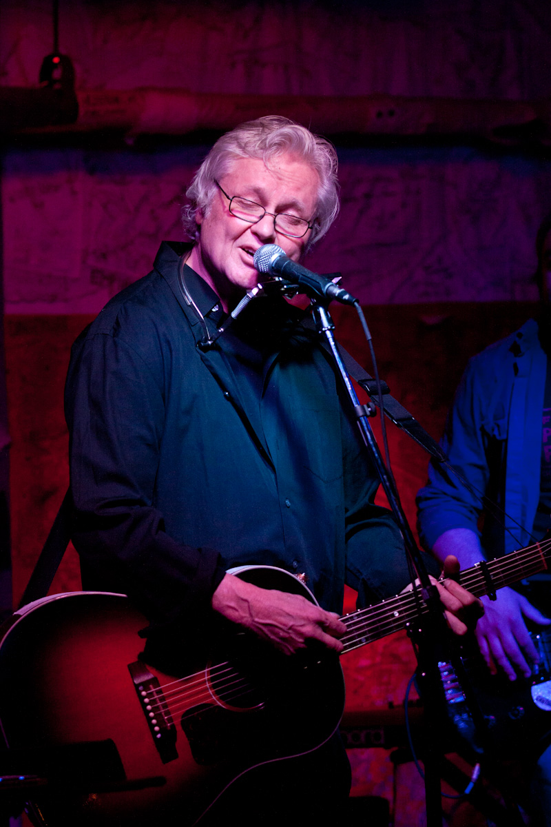 Singer / Songwriter Chip Taylor (James Wesley Voight) at Hill Country Live in NYC